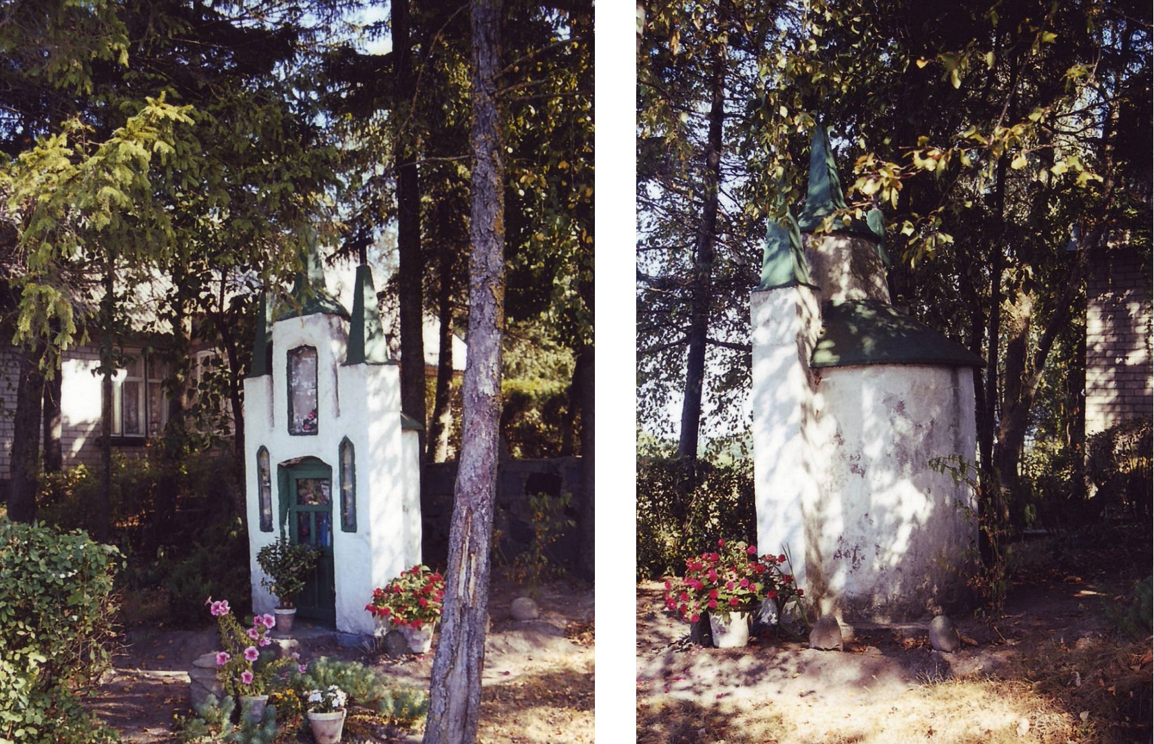 Kadagynas, Kretinga district, Lithuania